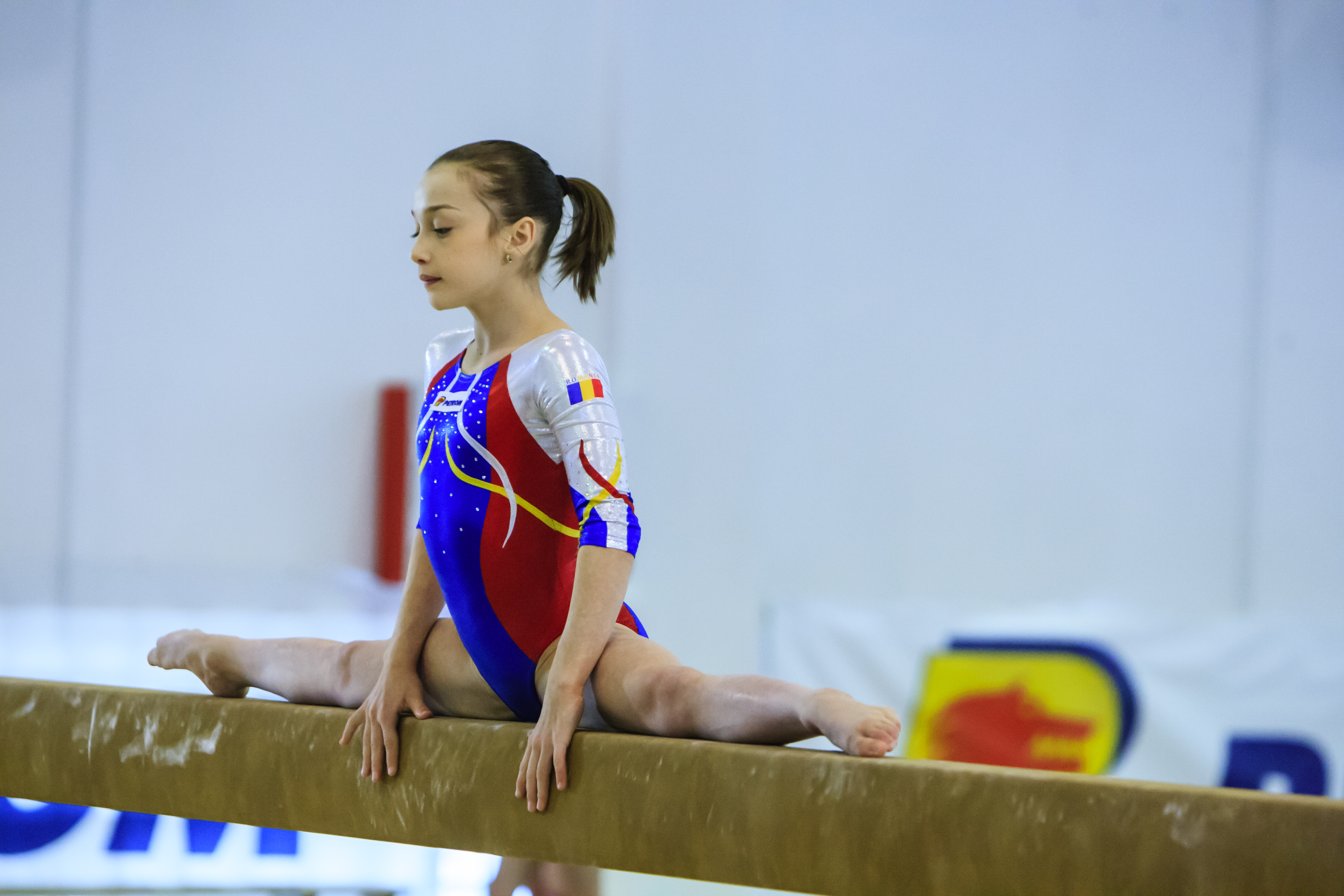 Romania's Andreea Iridon training.